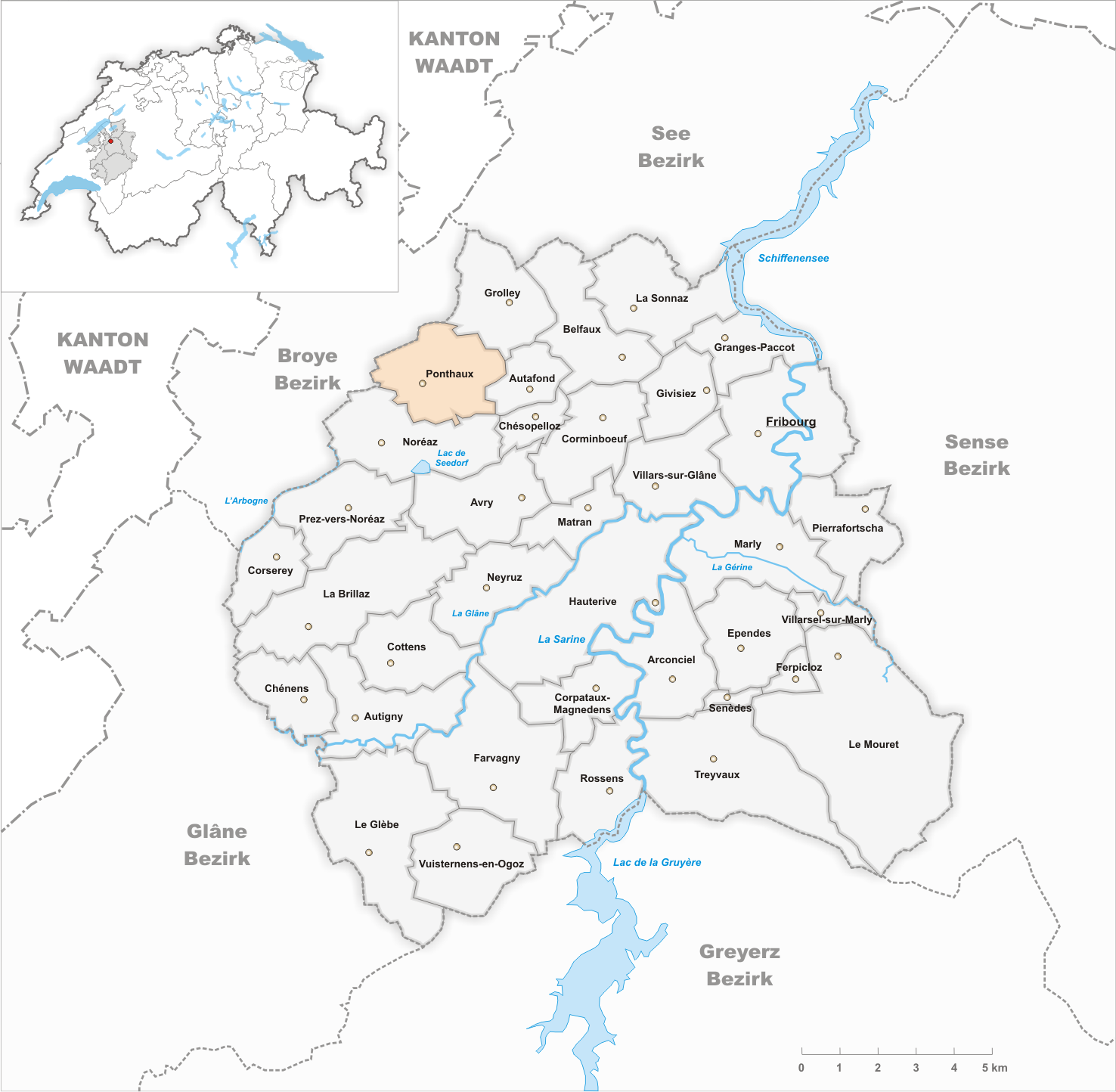 Municipality Ponthaux